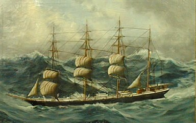 Ship Portrait of the German four-masted bark Wandsbek in the Atlantic Ocean, c. 1900 - the windjammer is shown under reduced sails on the high sea.